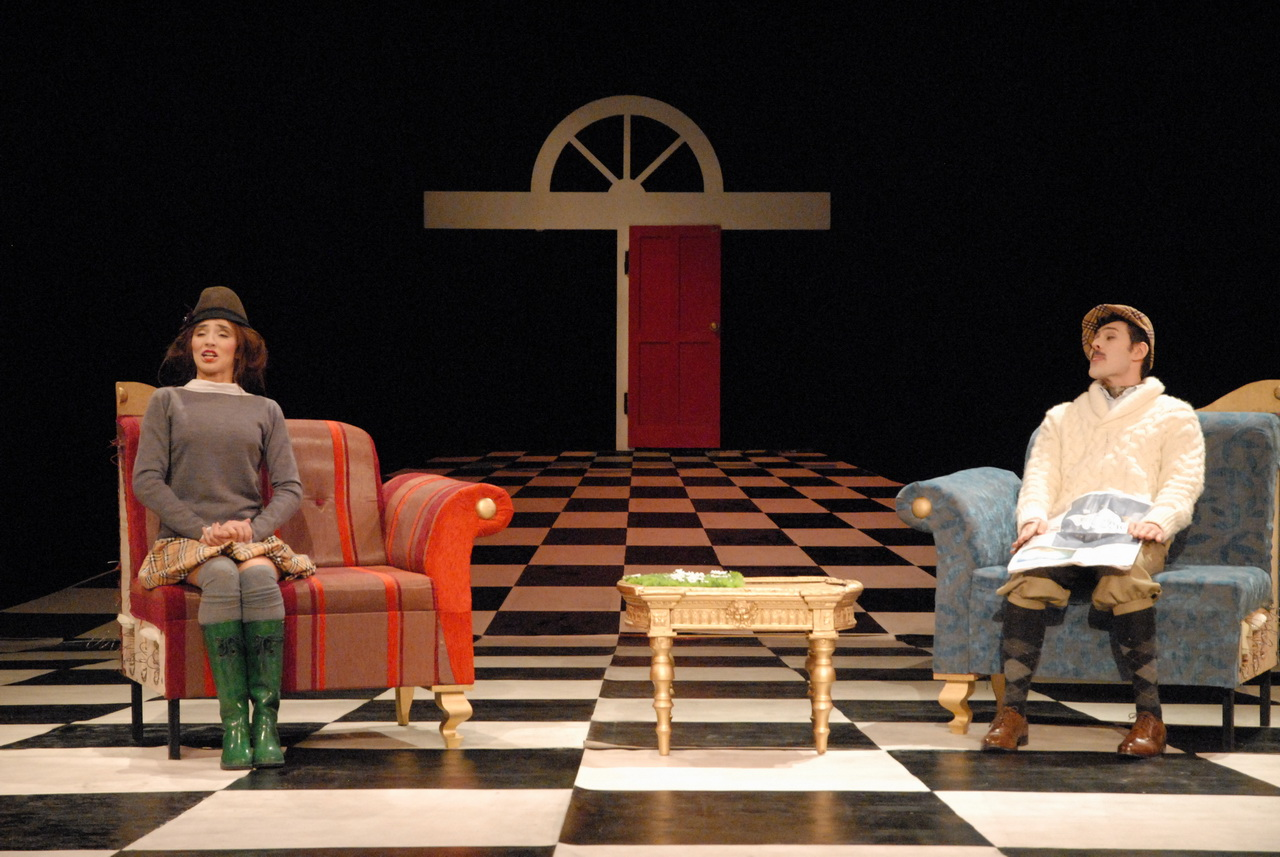 "The Bald Soprano", play by Eugène Ionesco, directed by Jelena Balašević; Drama of the SNT, Novi Sad, 2009/10; Jovana Balašević, Dušan Majkić Srpski (latinica): "Ćelava pevačica", napisao Ežen Jonesko u režiji Jelene Balašević; Drama SNP-a, Novi Sad, 2009/10; Jovana Balašević, Dušan Majkić Српски (ћирилица): "Ћелава певачица", написао Ежен Јонеско у режији Јелене Балашевић; Драма СНП-а, Нови Сад, 2009/10; Јована Балашевић, Душан Мајкић